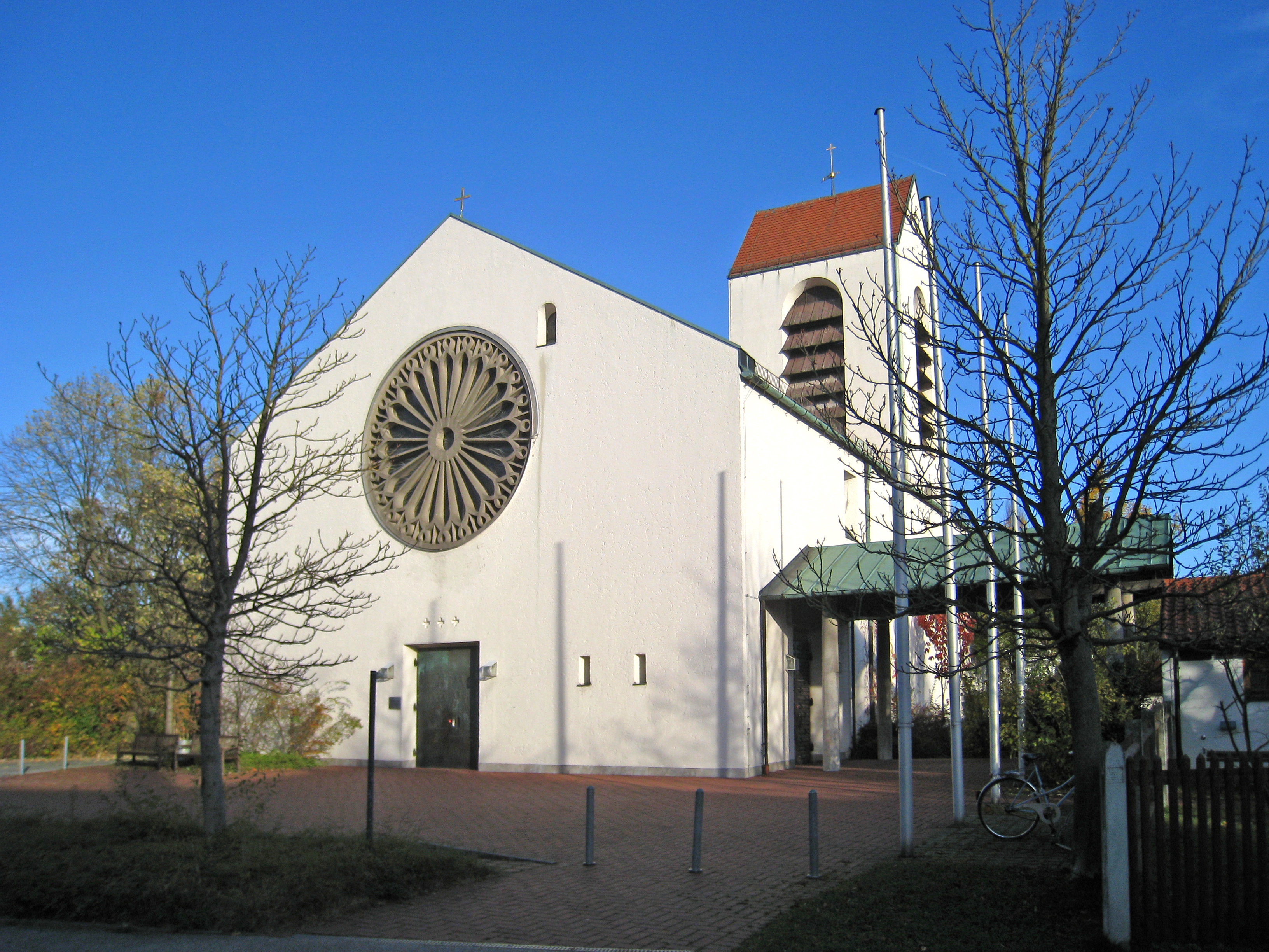 St. Klara church in Munich, Zamdorf (germany, bavaria)